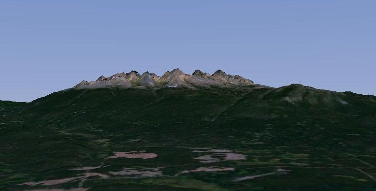 Satellite image of the southern flank of Ilgachuz Range.